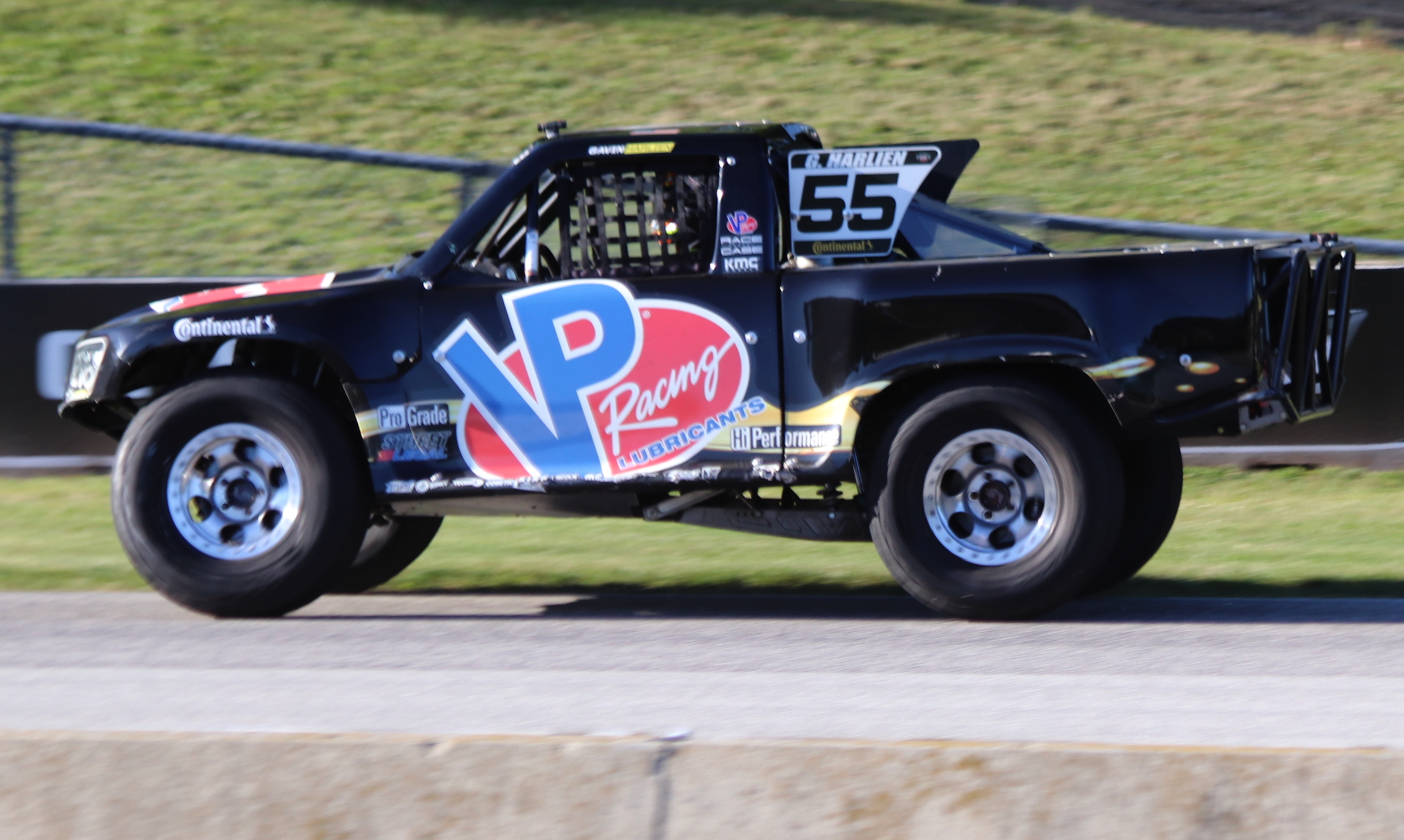 The Stadium Super Truck of Gavin Harlien at Road America in round 15.